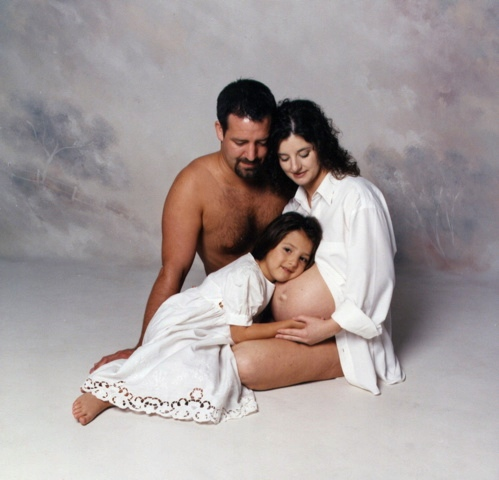 Family expecting an additional family member